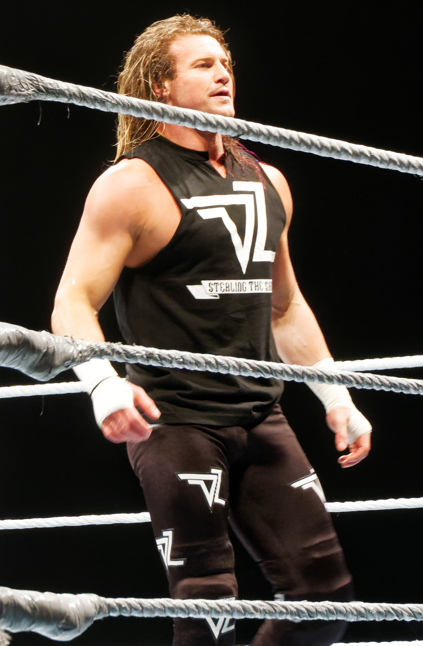 Dolph Ziggler in April 2016